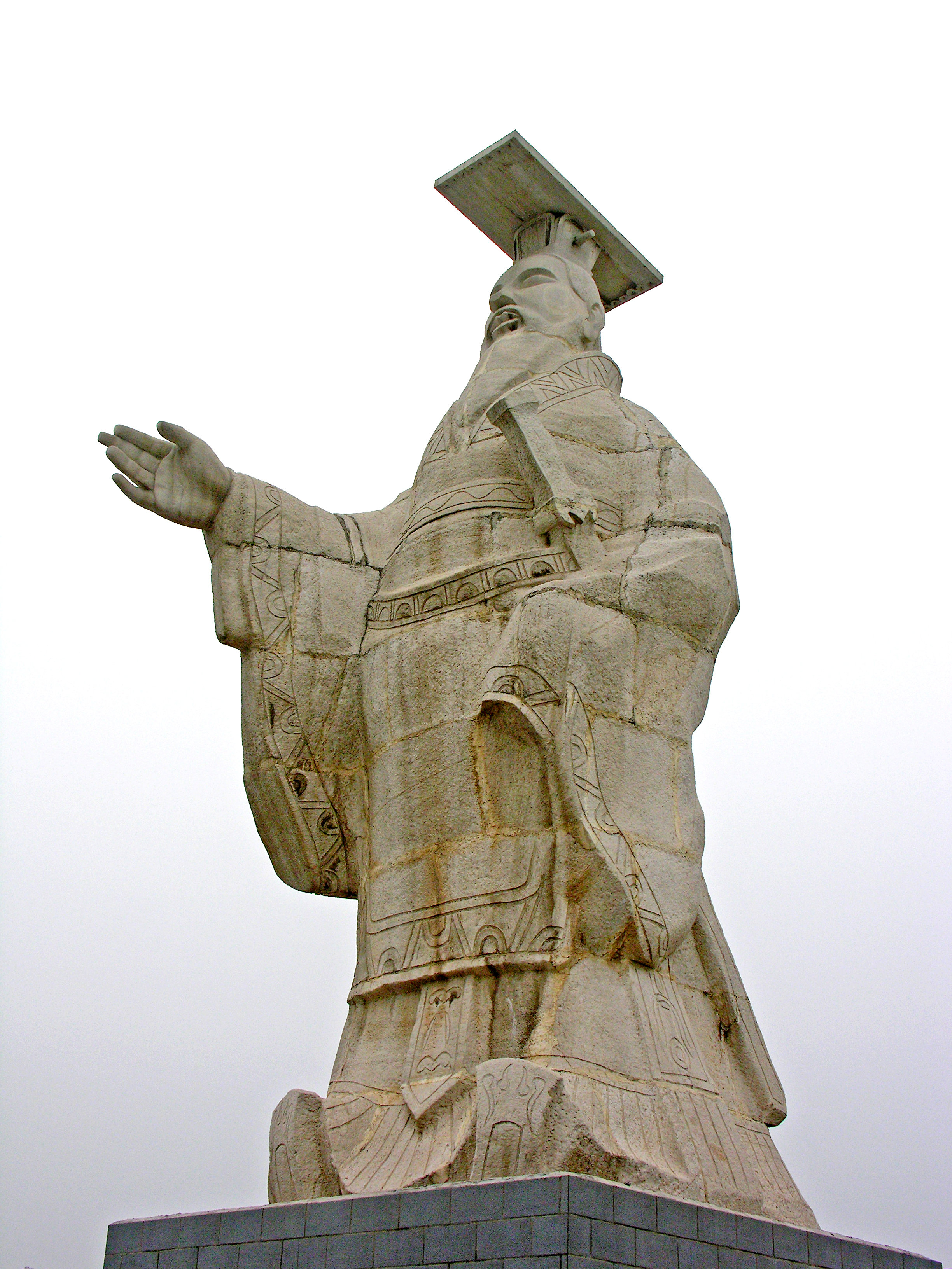 Qin Shi Huang (259-210BC) was the first emperor of the Qin Dynasty and he was the founder of China’s first empire. He expanded his military strength building an army of one million professional soldiers. He also started the construction of the Great Wall